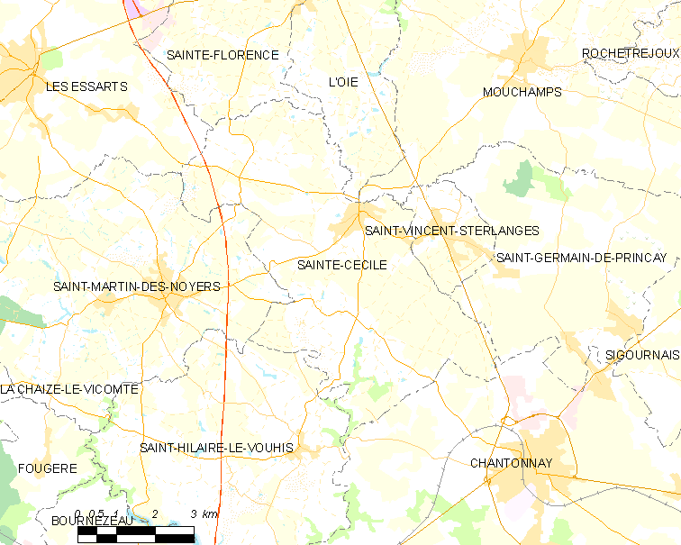 Map of French municipality Sainte-Cécile